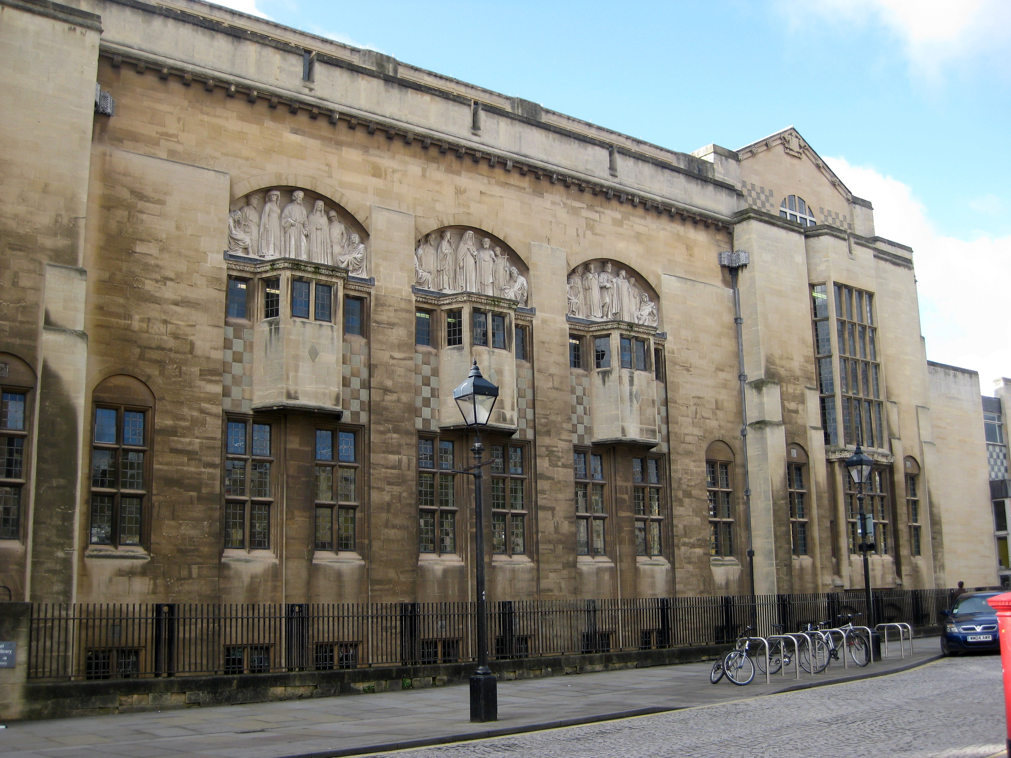 Bristol Central Library, part of exterior